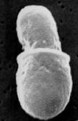 SEM photograph of Malassezia